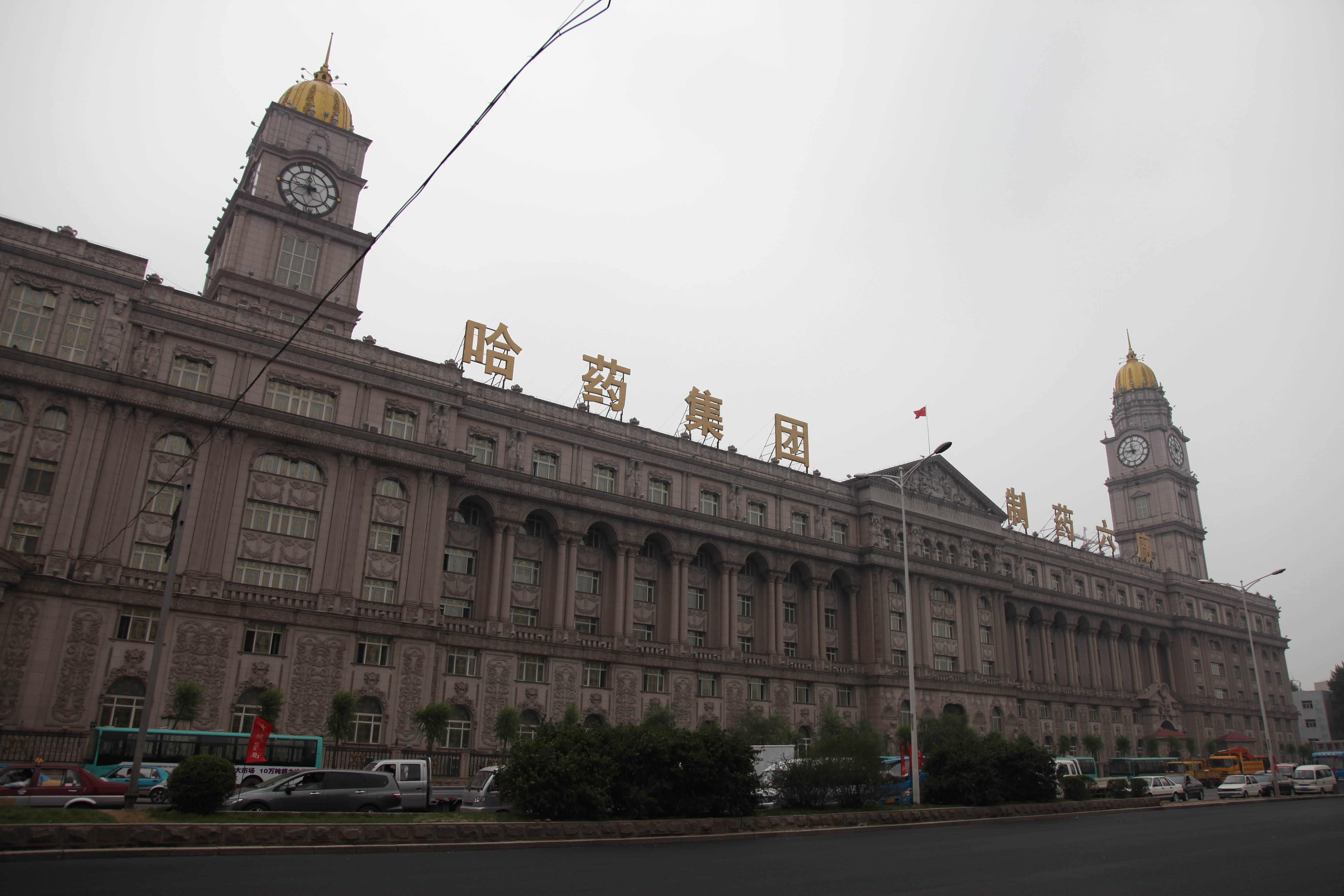 Harbin Pharmaceutical Group Sixth Pharmaceutical Factory located in Hongqi Main Street, Harbin, Heilongjiang, China.